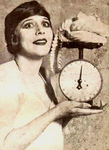 Actress and dancer Olive Ann Alcorn, on page 16 of the February 4, 1922 National Police Gazette. The caption states that her costume for a revue in San Francisco only weighed three ounces.